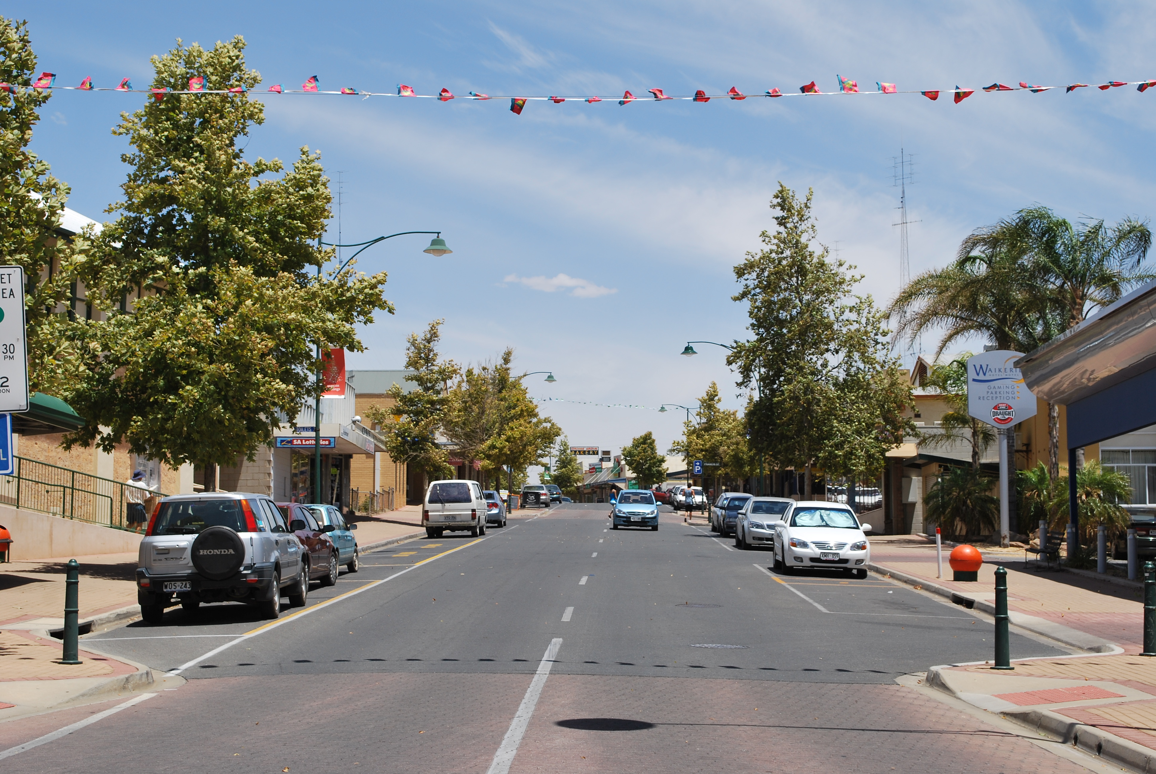 Peake Tce, the main street of Waikerie, South Australia